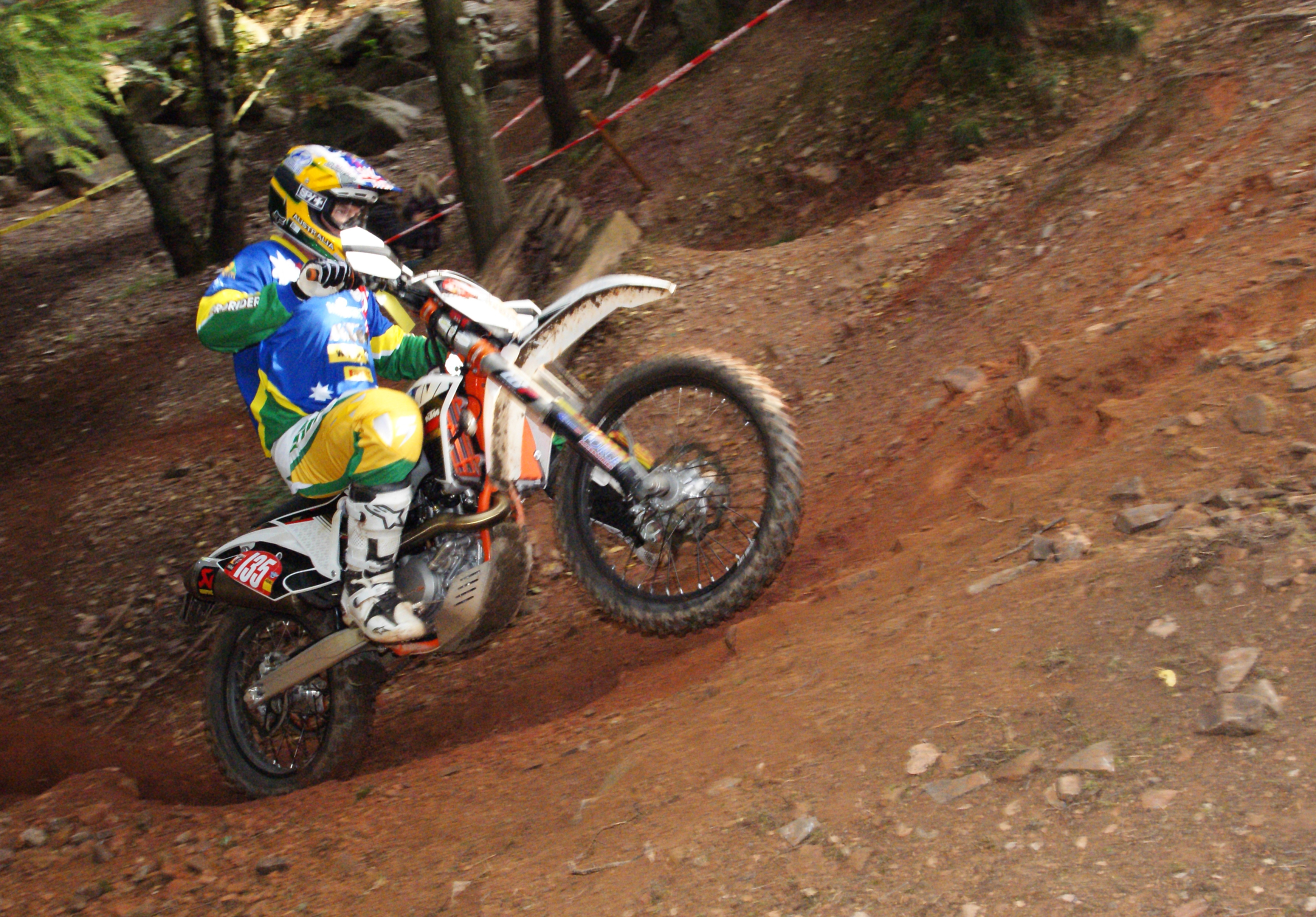 The making of this document was supported by the Community-Budget of Wikimedia Germany. 87. ISDE Germany Sonderpruefung Zwoenitz Toby Price Trophy Australia